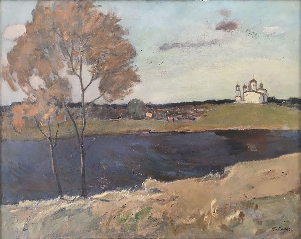 Oil on canvas. Soviet art, realism school. Leningrad artists.